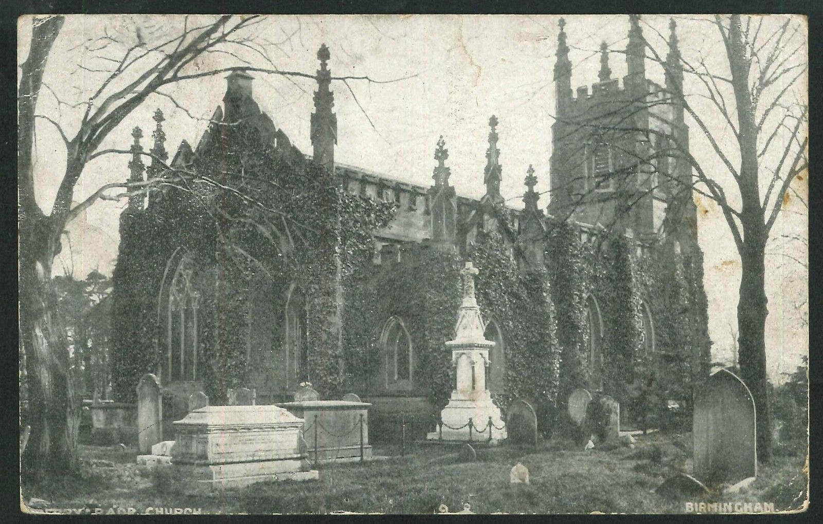 Postcard of St John the Evangelist parish church, Church Road, Perry Barr, Birmingham, seen from the northeast. The card is postmarked 1907. Other examples of the same postcard are postmarked 1904.